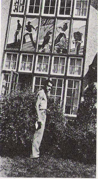 Picture of Santiago Martinez Delgado with stain Windows